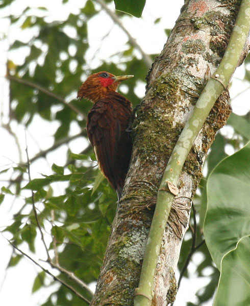 Chestnut-coloured Woodpecker (Celeus castaneus). A male at La Selva entrance road, Costa Rica Caribbean lowlands.